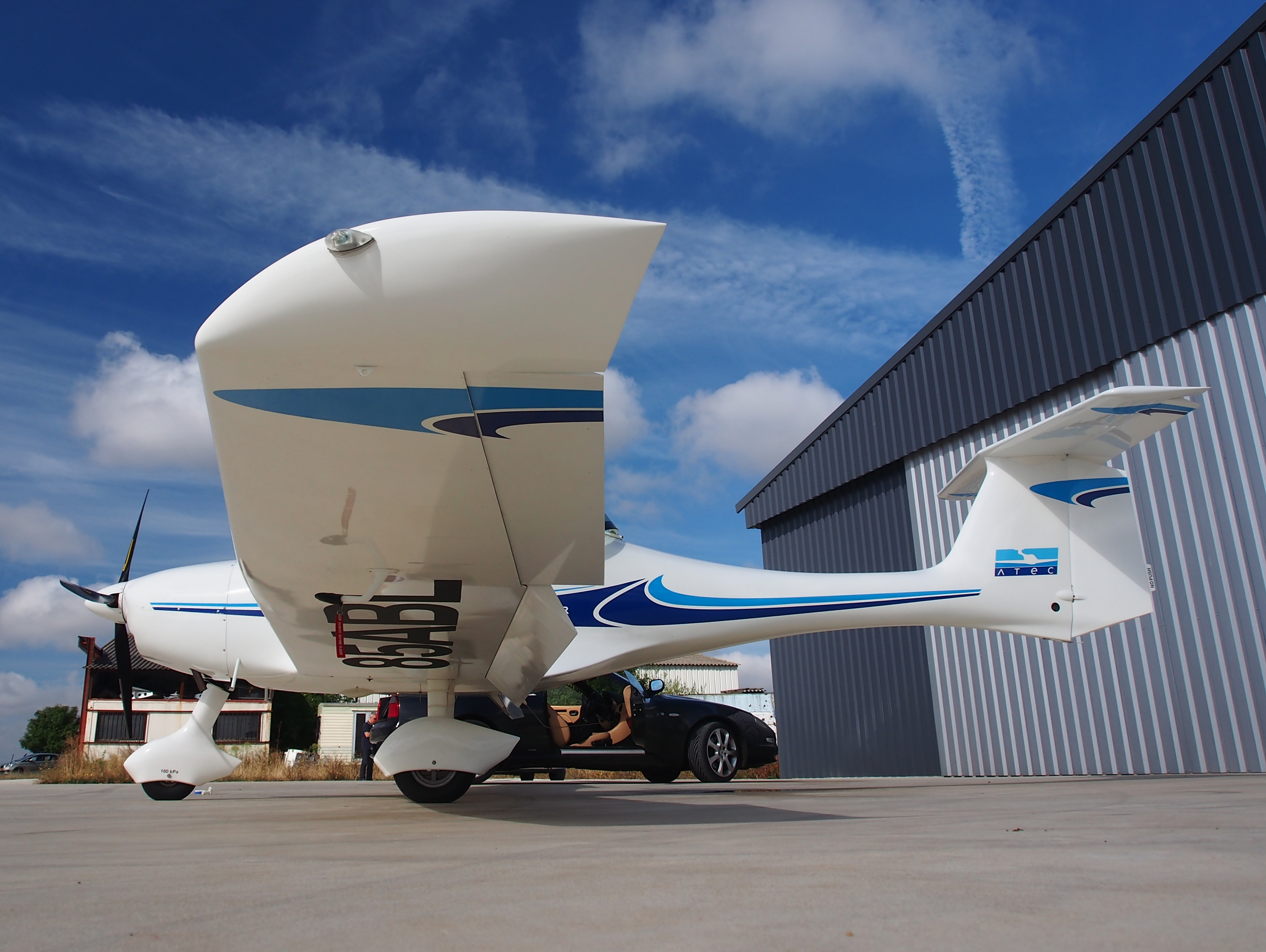 Photographed in France.